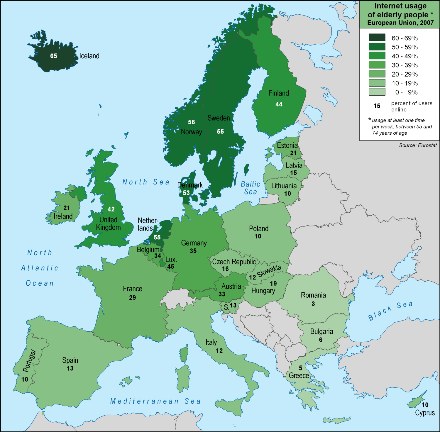 People between 55 and 74 years of age who use the Internet at least one time per week, European Union, 2007